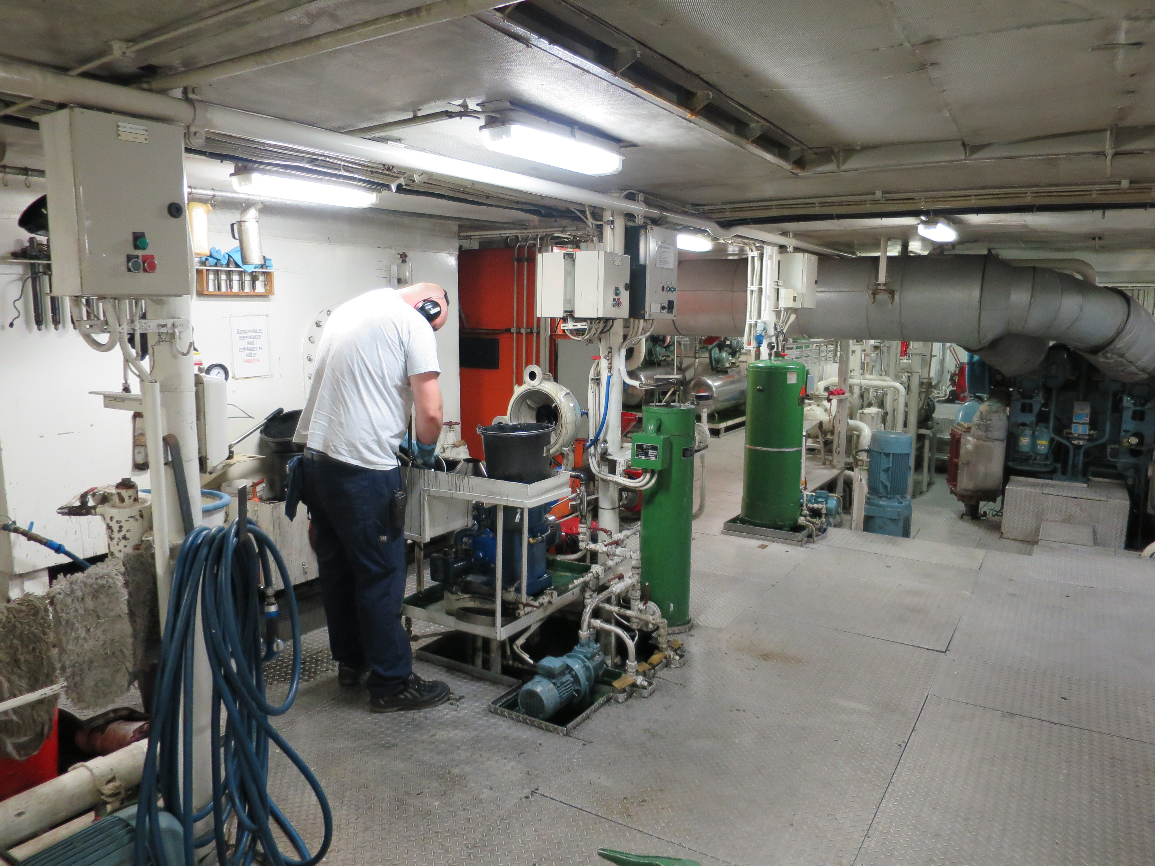 The engine room on the ferry MF Bastø IV, an oiler doing mainenance work